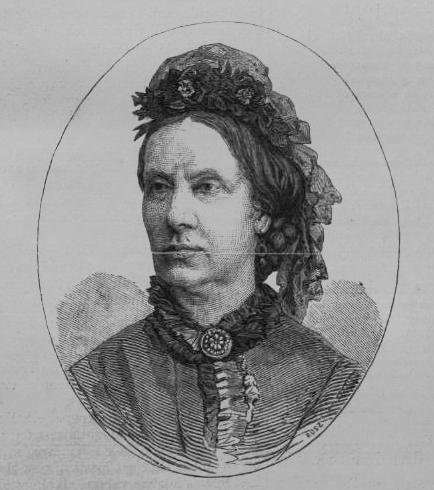 Portrait of Pálné Veres